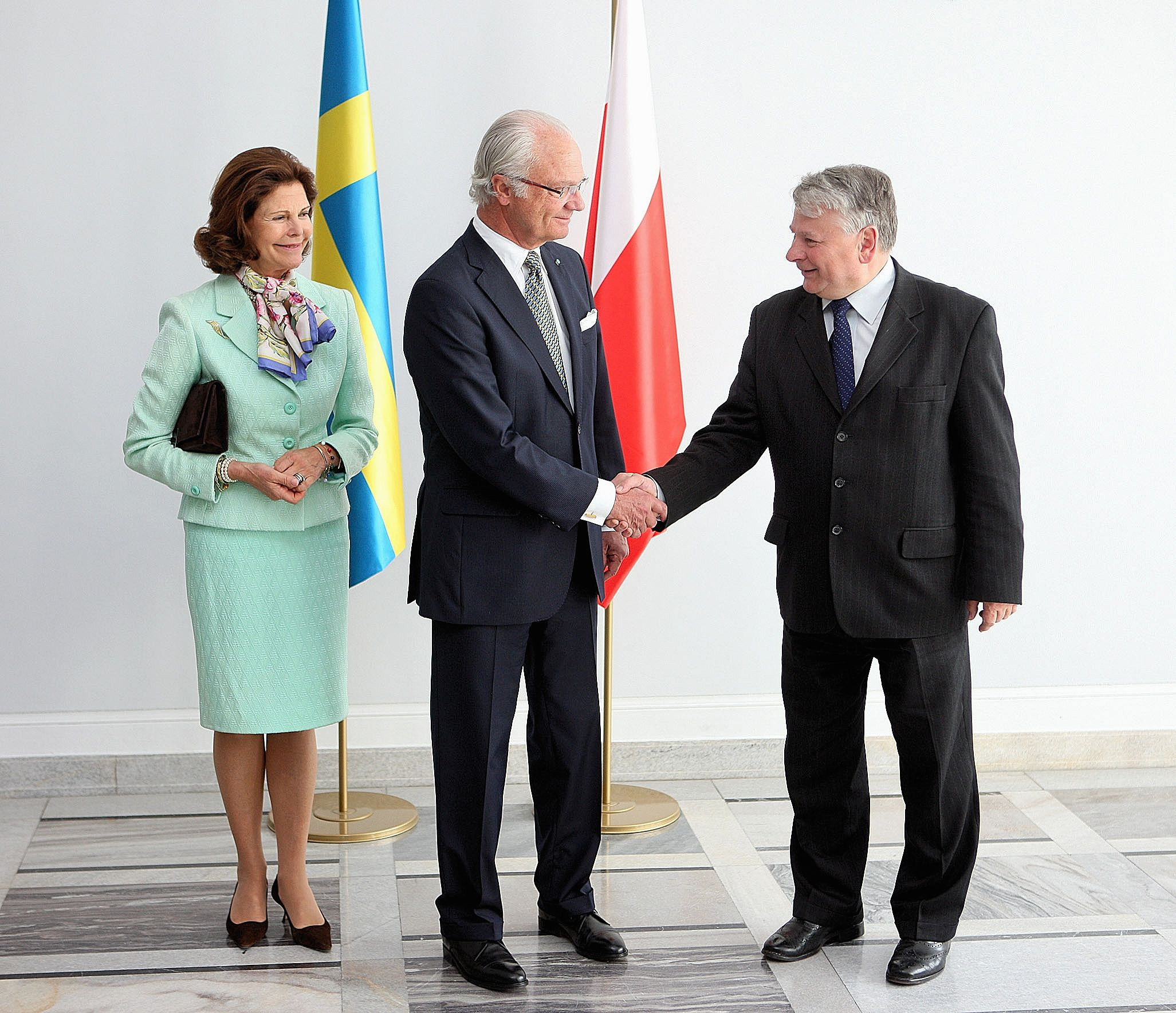 Queen Silvia, Carl XVI Gustaf of Sweden and Marshal Bogdan Borusewicz in the Polish Senate